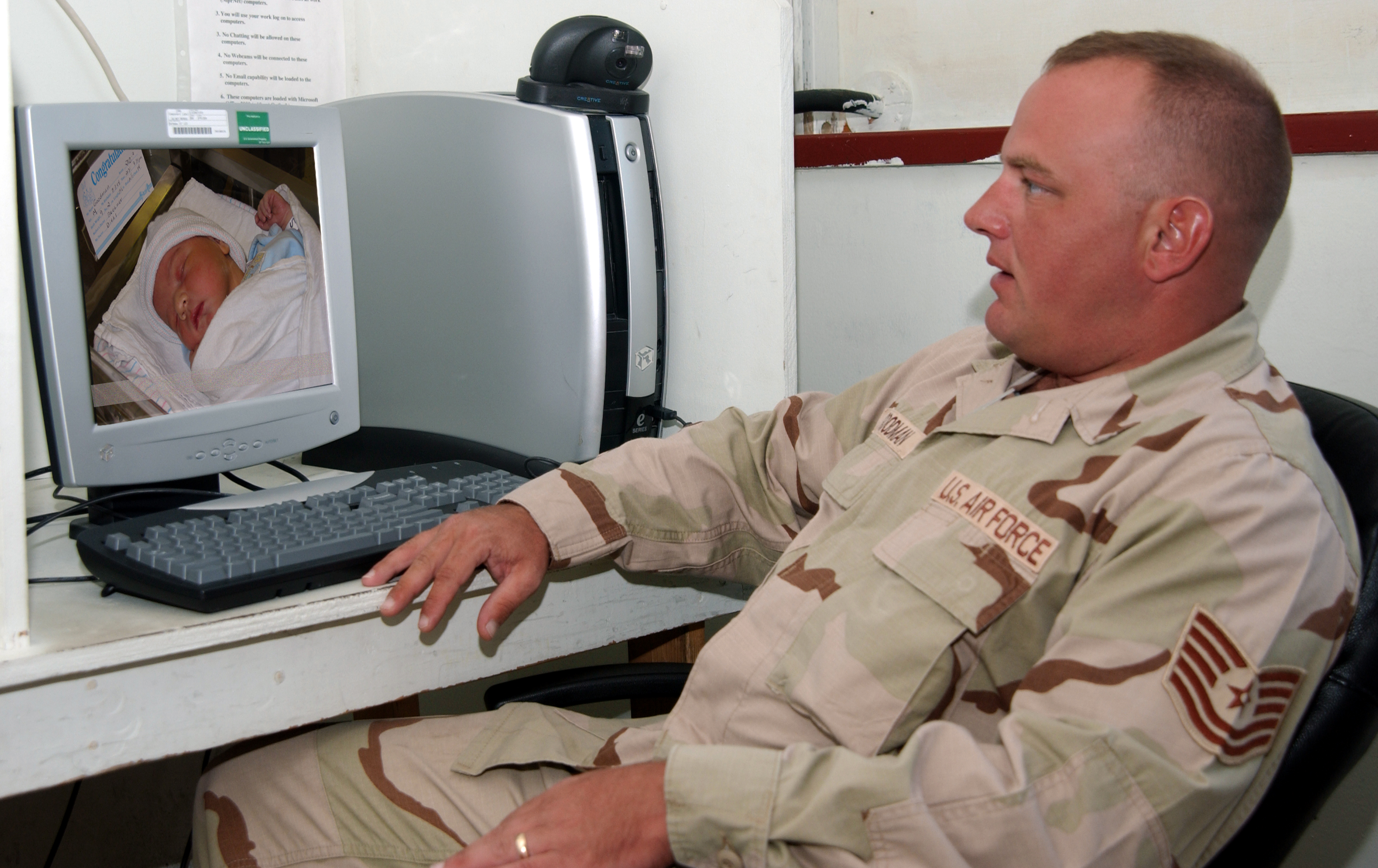 That's my baby OPERATION ENDURING FREEDOM -- Tech. Sgt. Troy Goodman inspects the newest member of his family via webcam August 12. Sergeant Goodman was able to watch the live birth over the Internet. He is the noncommissioned officer in charge of munitions inspections for the 40th Expeditionary Munitions Flight.